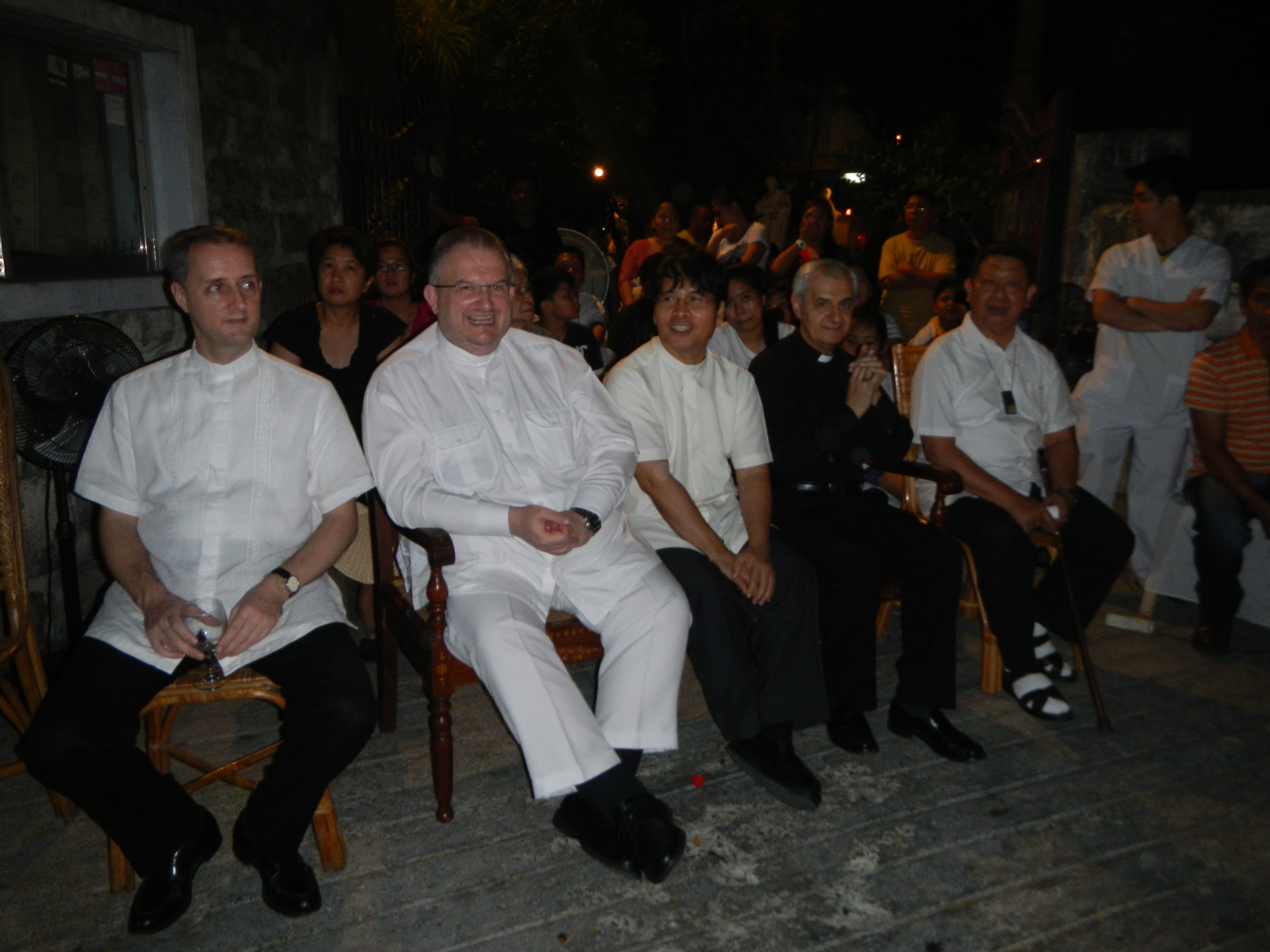 Photo of Archbishop Giuseppe Pinto, Papal or Apostolic Nuncio of the Philippines , beside is Fr. Len Coronel, Parish Priest of Concepcion, Baliuag Quasi-Parish -watching the- Good Friday Baliuag, Bulacan procession: Apostolic Nunciature to the Philippines[1] Past Apostolic Nuncio[2]Giuseppe Pinto (10 May 2011 – present)[3]New Papal Nuncio Giuseppe Pinto arrives in Manila [4]Vatican’s official representative to the Philippines, Archbishop Giuseppe Pinto, arrives in Manila on Friday (July 15) to fill in the post left by formal Papal Nuncio John Joseph Edwards who was reassigned to Greece by Pope Benedict XVI last February. Archbishop Pinto was born in Bari, Italy on May 26, 1952. He was ordained as a priest on April 1, 1978 and holds a doctorate in Canon Law. He is fluent in Italian, French, English and Spanish. He entered the Diplomatic Service of the Holy See on May 1, 1984, and has served successively in Papua New Guinea, Argentina and the Secretariat of State in Vatican City. He also served as apostolic nuncio to Senegal, Cape Verde, Mali and Guinea-Bissau, and has been assigned as Apostolic Delegate to Mauritania. Prior to his current appointment, the archbishop was apostolic nuncio in Chile since 2007. A Papal or Apostolic Nuncio is the permanent diplomatic representative of the Holy See to a state or international organization. The Apostolic Nuncio holds the rank of an ambassador, and is granted the deanship of the country’s diplomatic corps.[5]Pope names new nuncio to Manila New Vatican envoy, 16th to Philippines, comes to Asia after service in Chile[6] Msgr. Gabor Pinter.